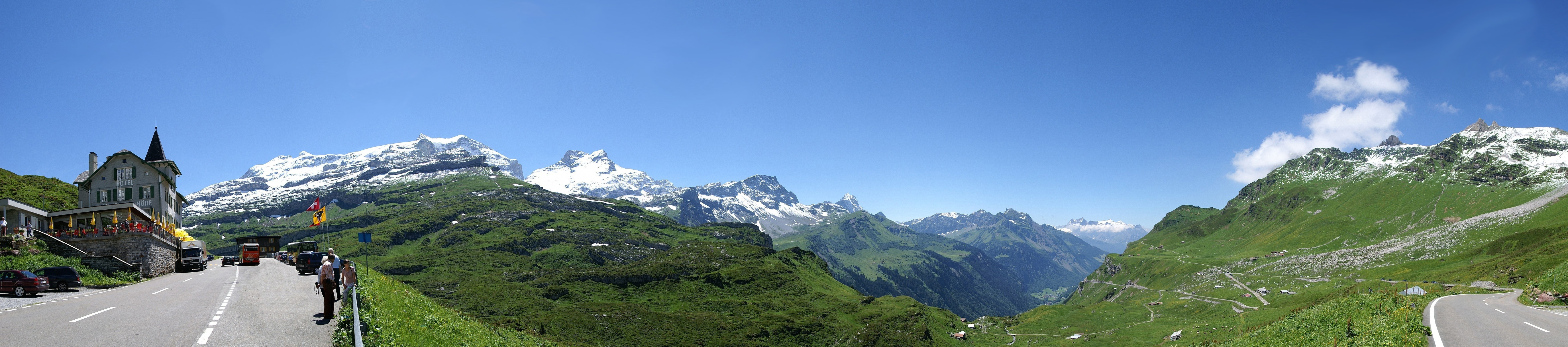 Klausen Pass (el. 1948 m.) is a high mountain pass in the Swiss Alps connecting the cantons of Uri and Glarus.